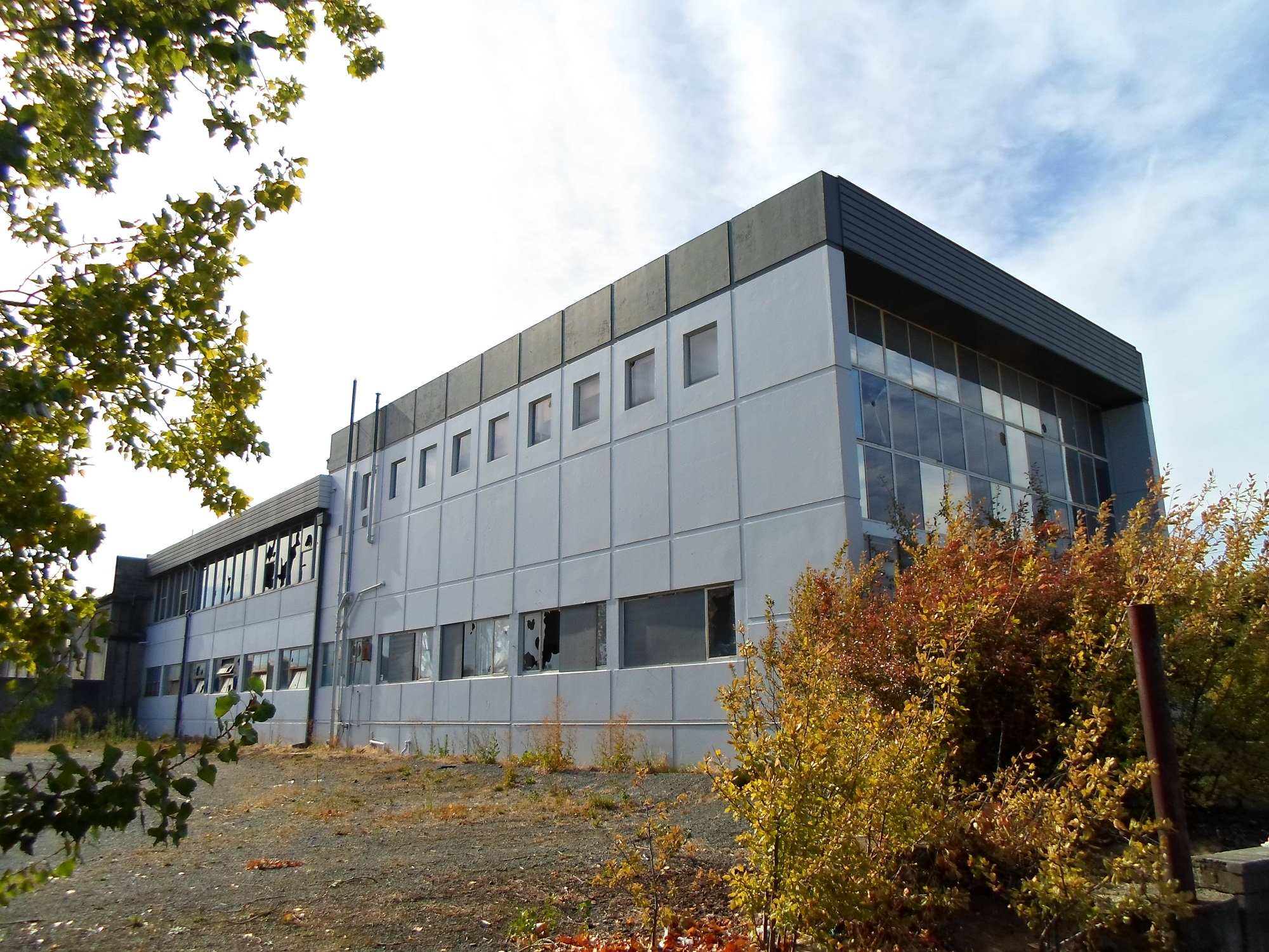 Former glass factory on Invermay Road in northern Mowbray, Tasmania